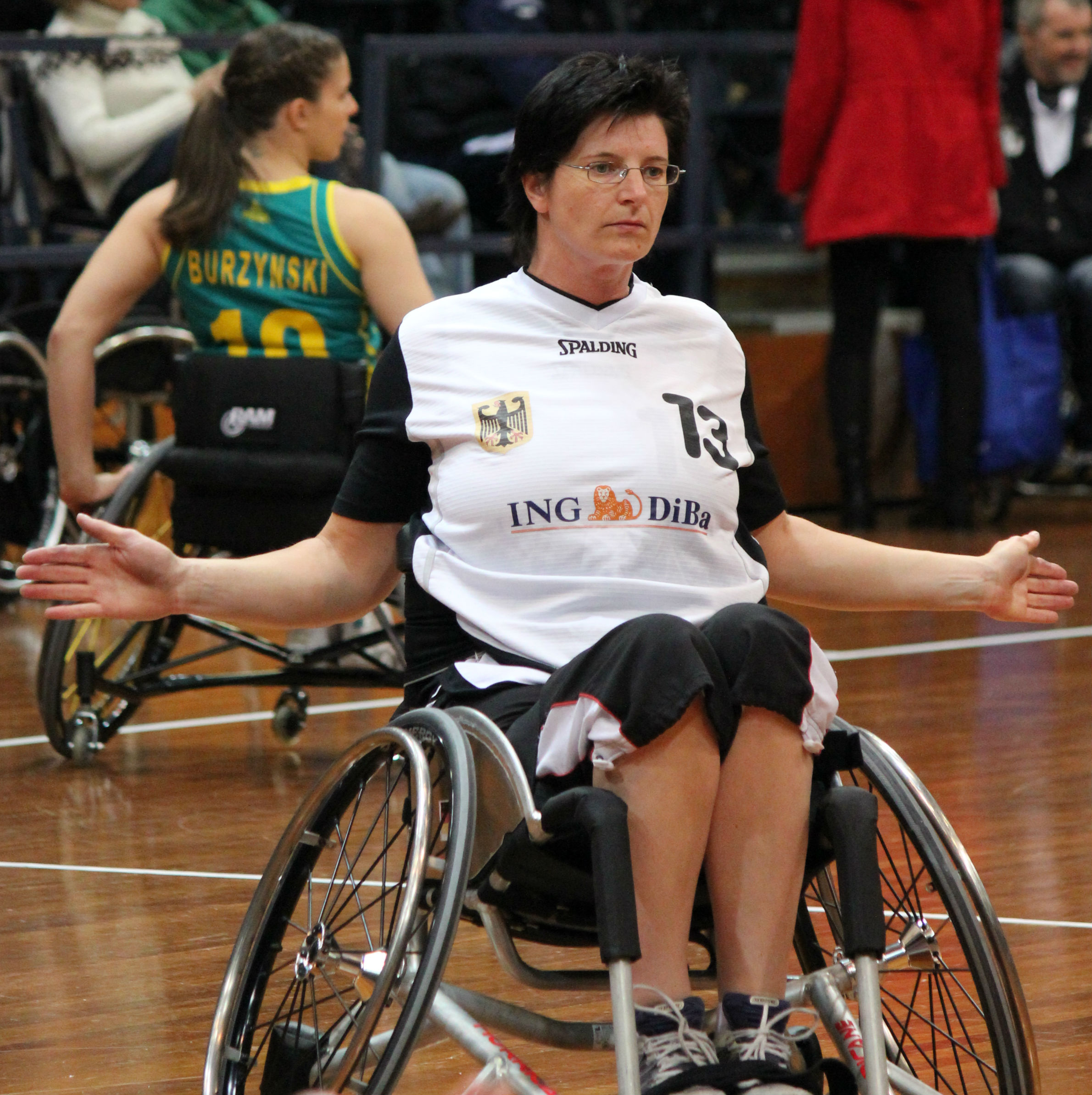 Annegret Brießmann of Germany women's national wheelchair basketball team at a basketball competition in July 2012 in Sydney.